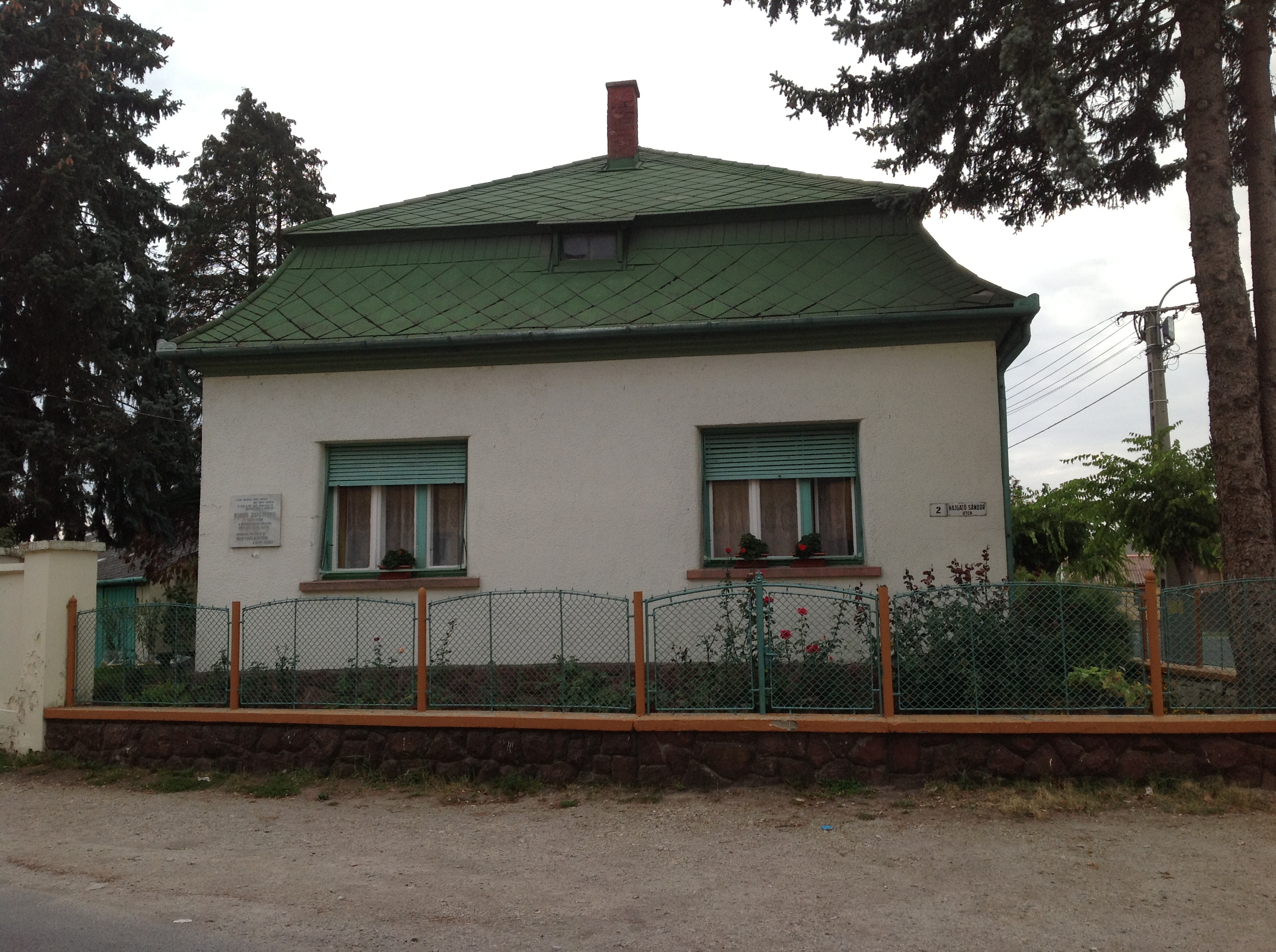 Birthplace of Zsigmond Kunfi in Kiskanizsa. Location: Hajgató Sándor utca. (Hajgató Sándor street)